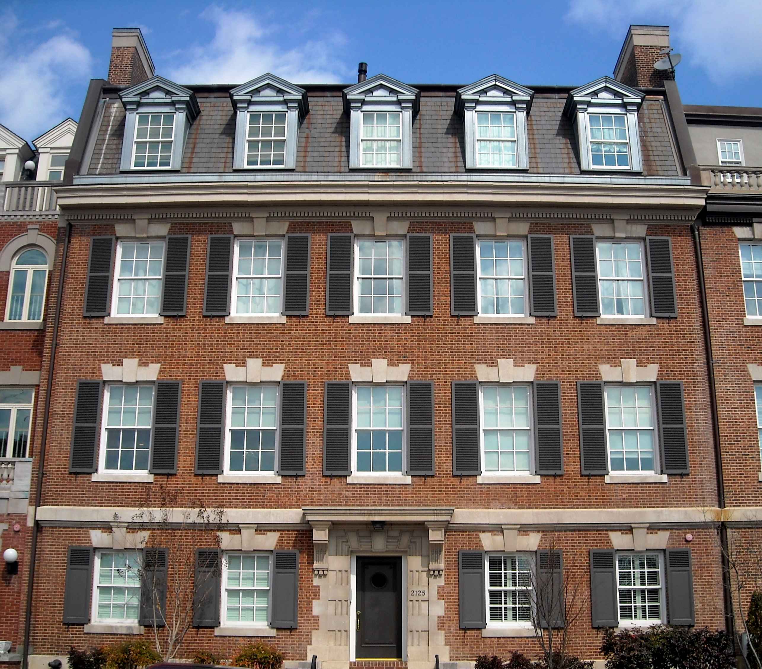 The Holton Condominium, a Georgian Revival style building located at 2125 S Street, NW in the Kalorama neighborhood of Washington, D.C. From 1906 to 1963, the building housed the Holton-Arms School, now located in Bethesda, Maryland. From 1964 to 1995, the building housed the Founding Church of Scientology (raided by the FBI on July 8, 1977, during the investigation of Operation Snow White). In 2003, the building was renovated and now serves as an eight-unit condominium. It is a contributing property to the Sheridan-Kalorama Historic District.